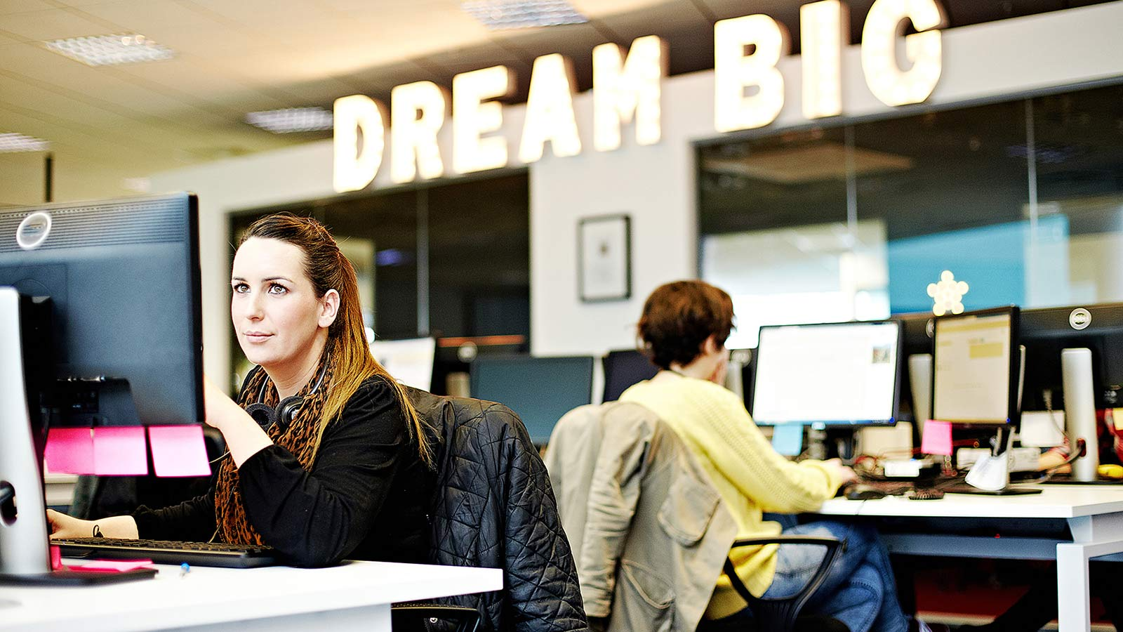 TELUS International office Ireland